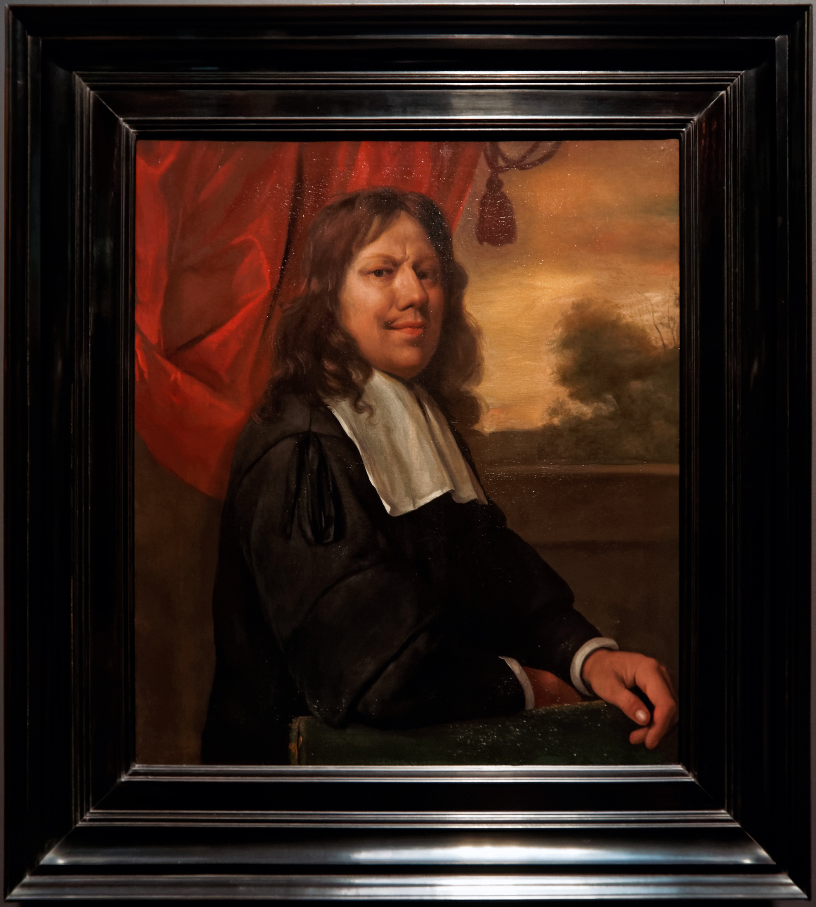 Jan Steen portrayed himself as a self-assured artist, in decorous black, seated against a red curtain and tassel. With this type of self-portrait Steen followed the example of famous artists such as Titian and Rembrandt. The portrait is an exception in his oeuvre. He usually included himself in other paintings, in a comic role.